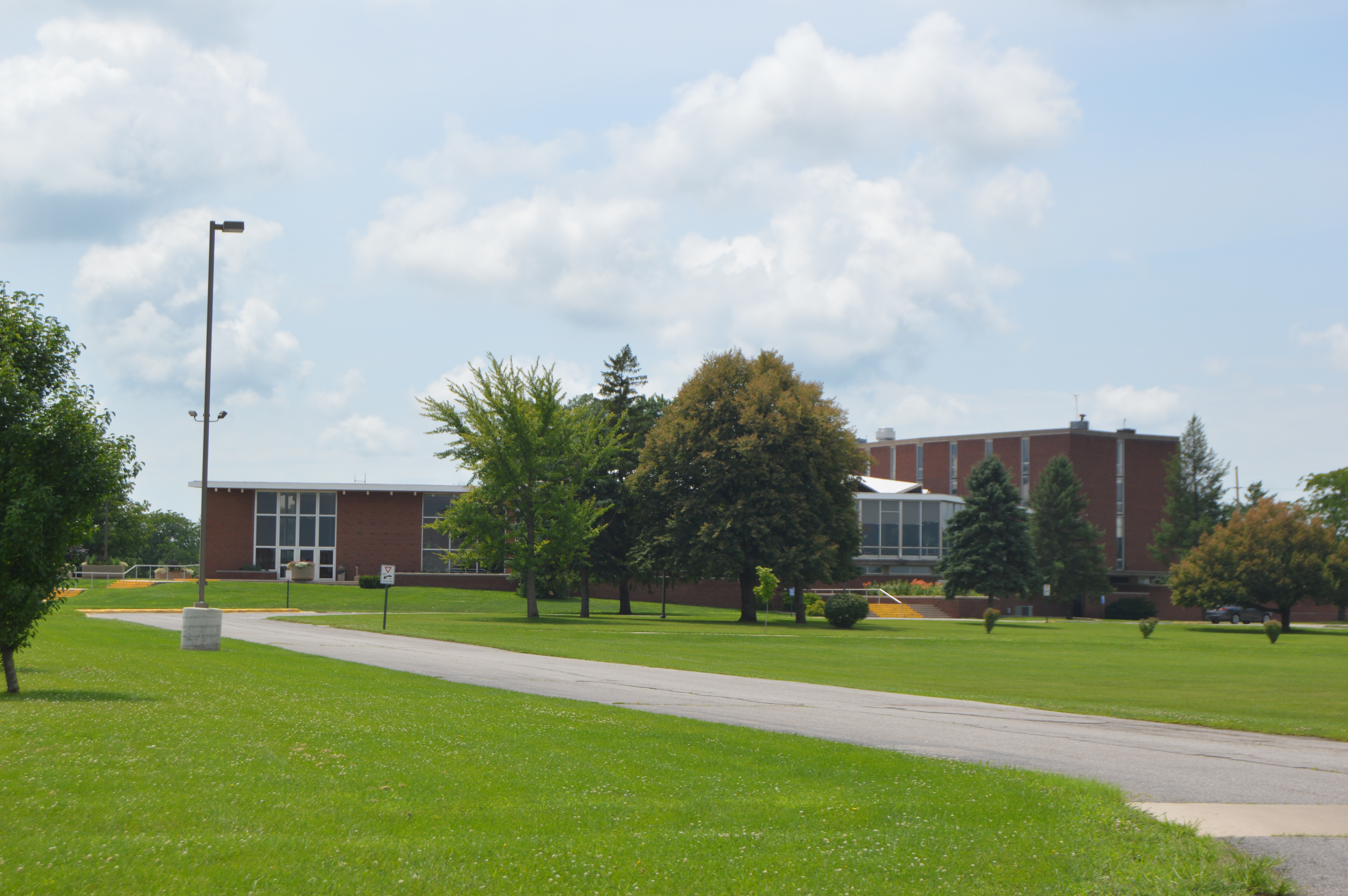 Distant view from the northeast of the Charles Halleck Student Center, located on the campus of Saint Joseph's College just south of Rensselaer in Marion Township, Jasper County, Indiana, United States. Built in 1962, it is listed on the National Register of Historic Places.